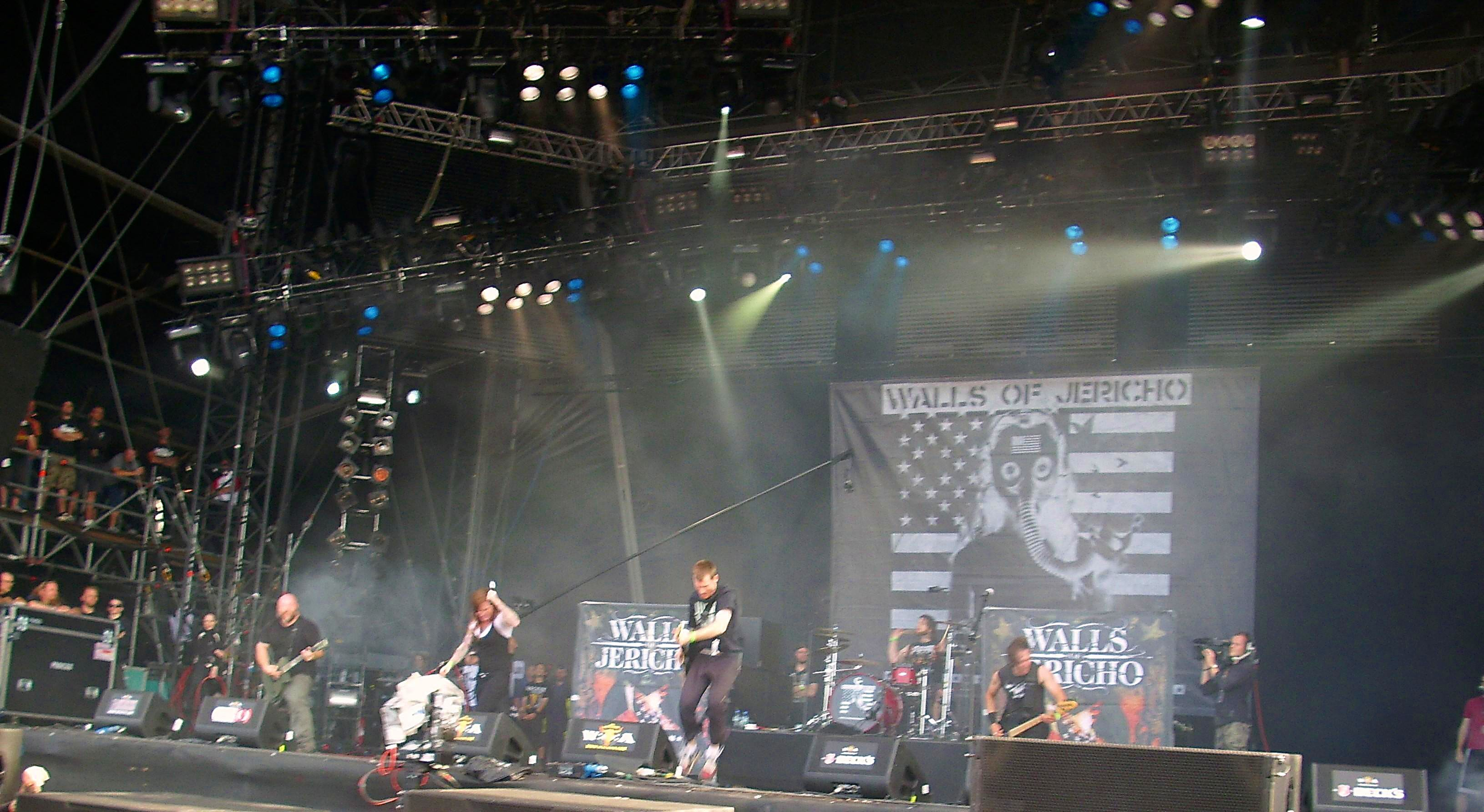 Walls of Jericho on Wacken Open Air 2009.